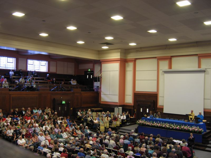 Swarthmore Lecture at Britain Yearly Meeting on 2006-05-27. At dais on right are Roger and Susan Sawtell, the lecturers.